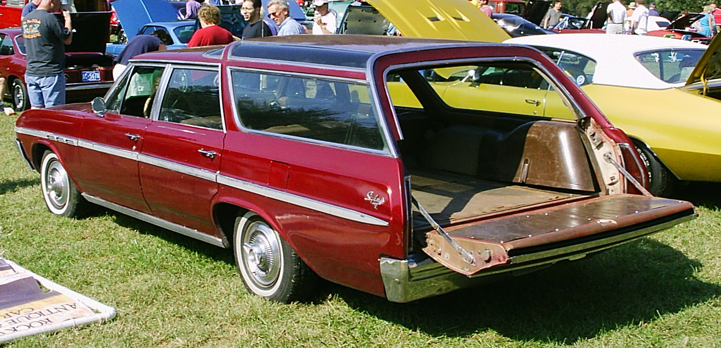 Buick Skylark "Sport Wagon" - ist generation (1964-1967).